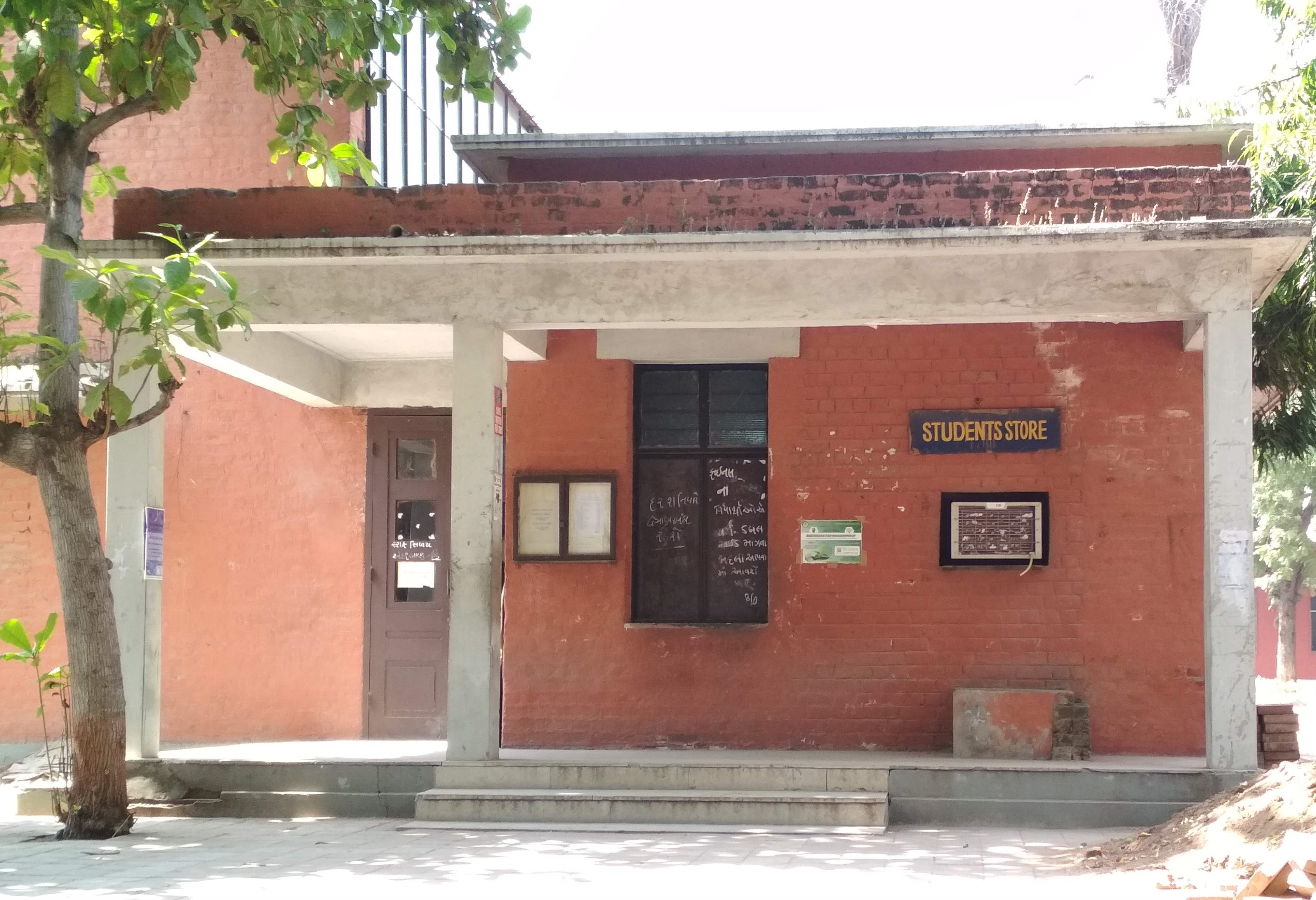 This is the image of stationery store located inside the Lalbhai Dalpatbhai College Of Engineering.